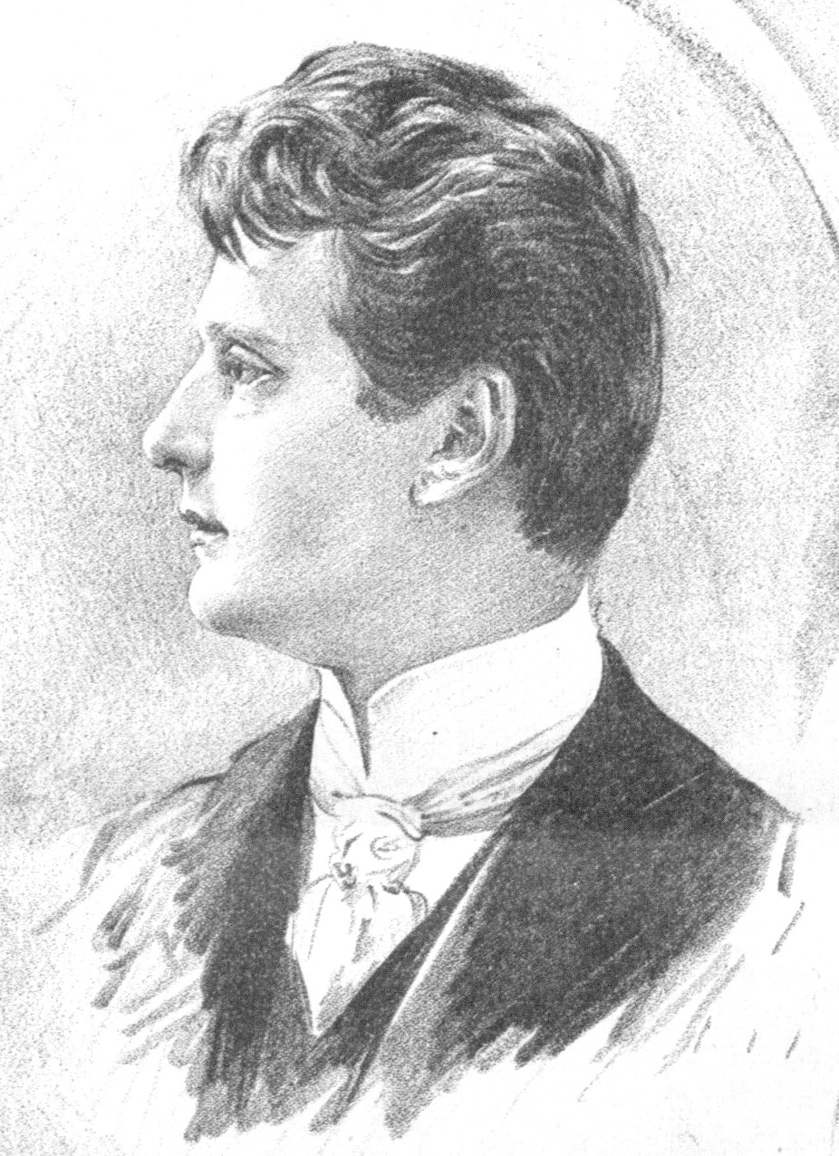 Portrait of Paul Biensfeldt (1869-1933), German actor. Cropped from a gallery of members of Hamburg Theater (Hamburger Schauspielhaus).